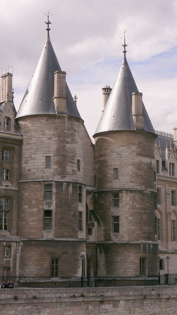 The two middle towers of the Conciergerie, Paris: Tour de César and Tour d'Argent